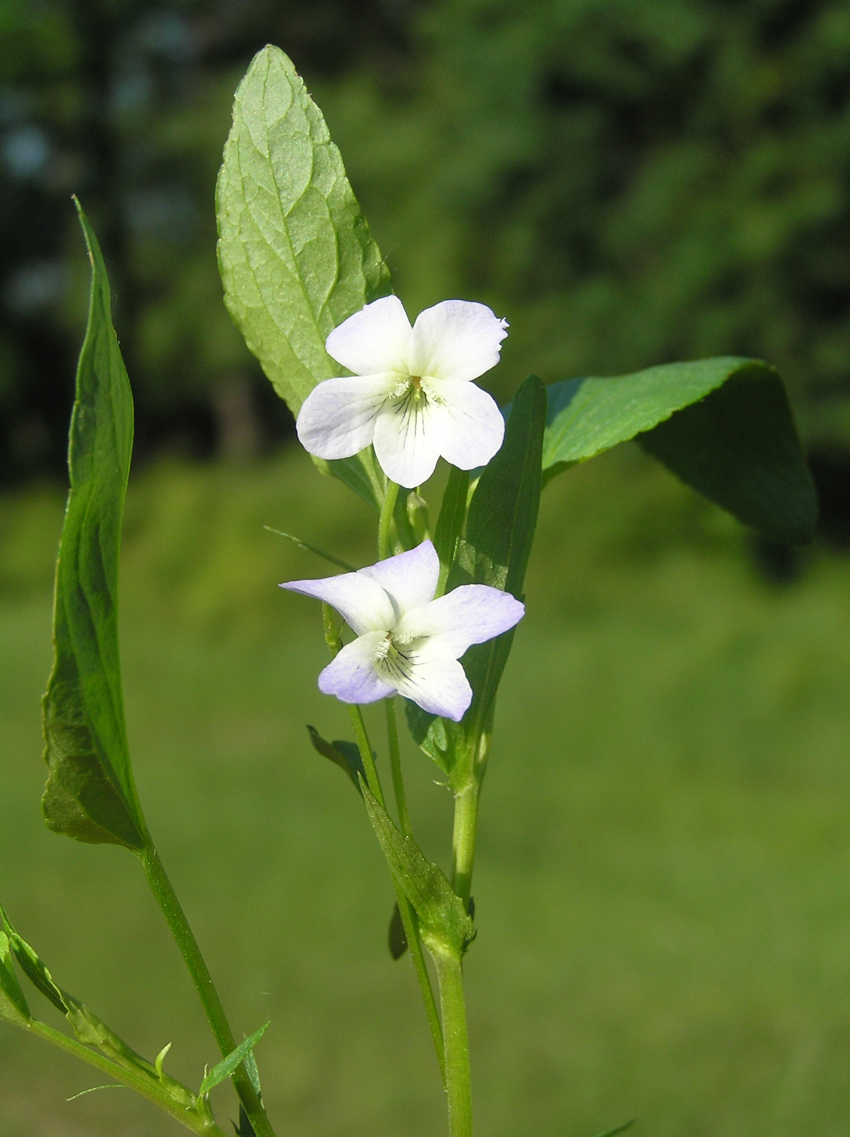 Viola stagnina, Lanžhot, Southern Moravia, Czech Republic